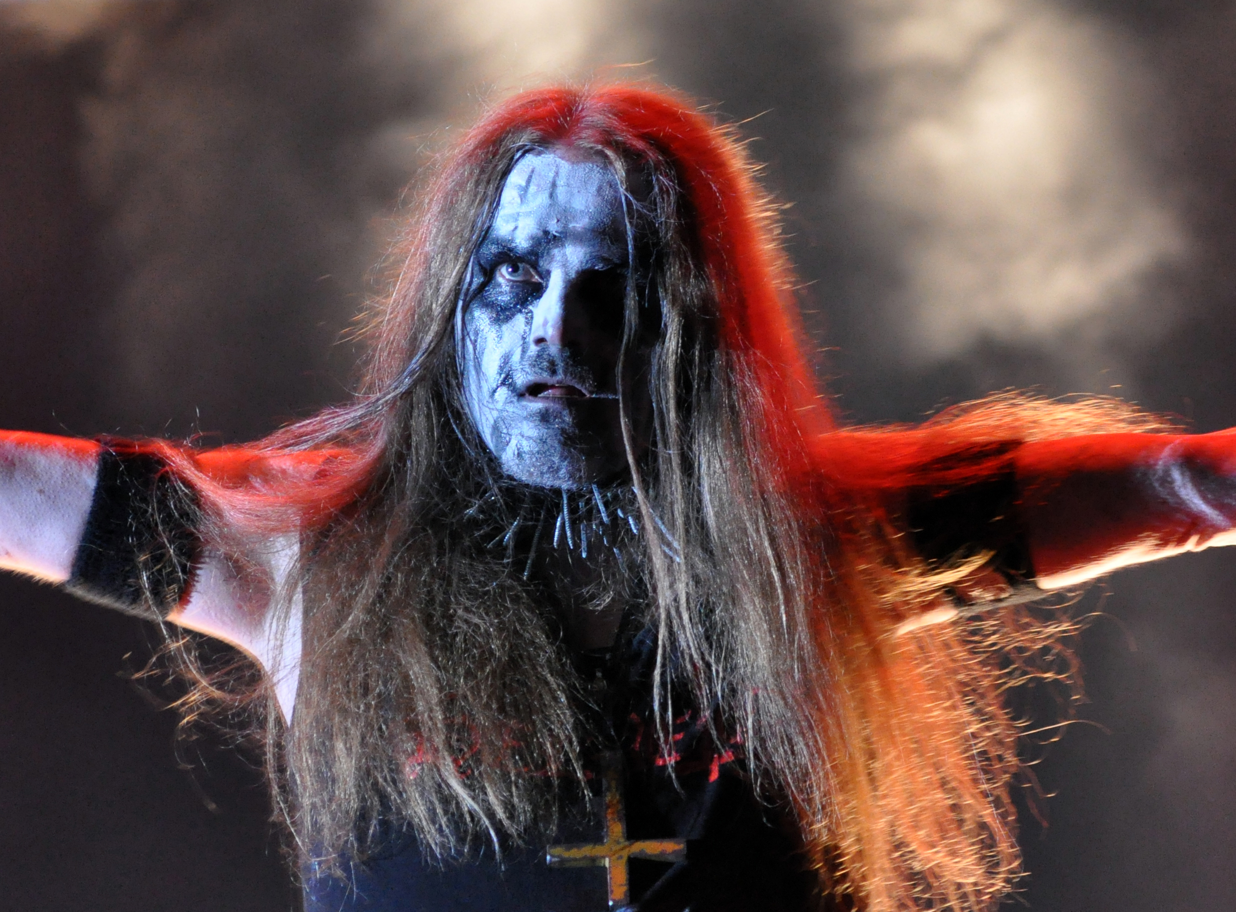 Carpathian Forest at Party.San Metal Open Air 2013